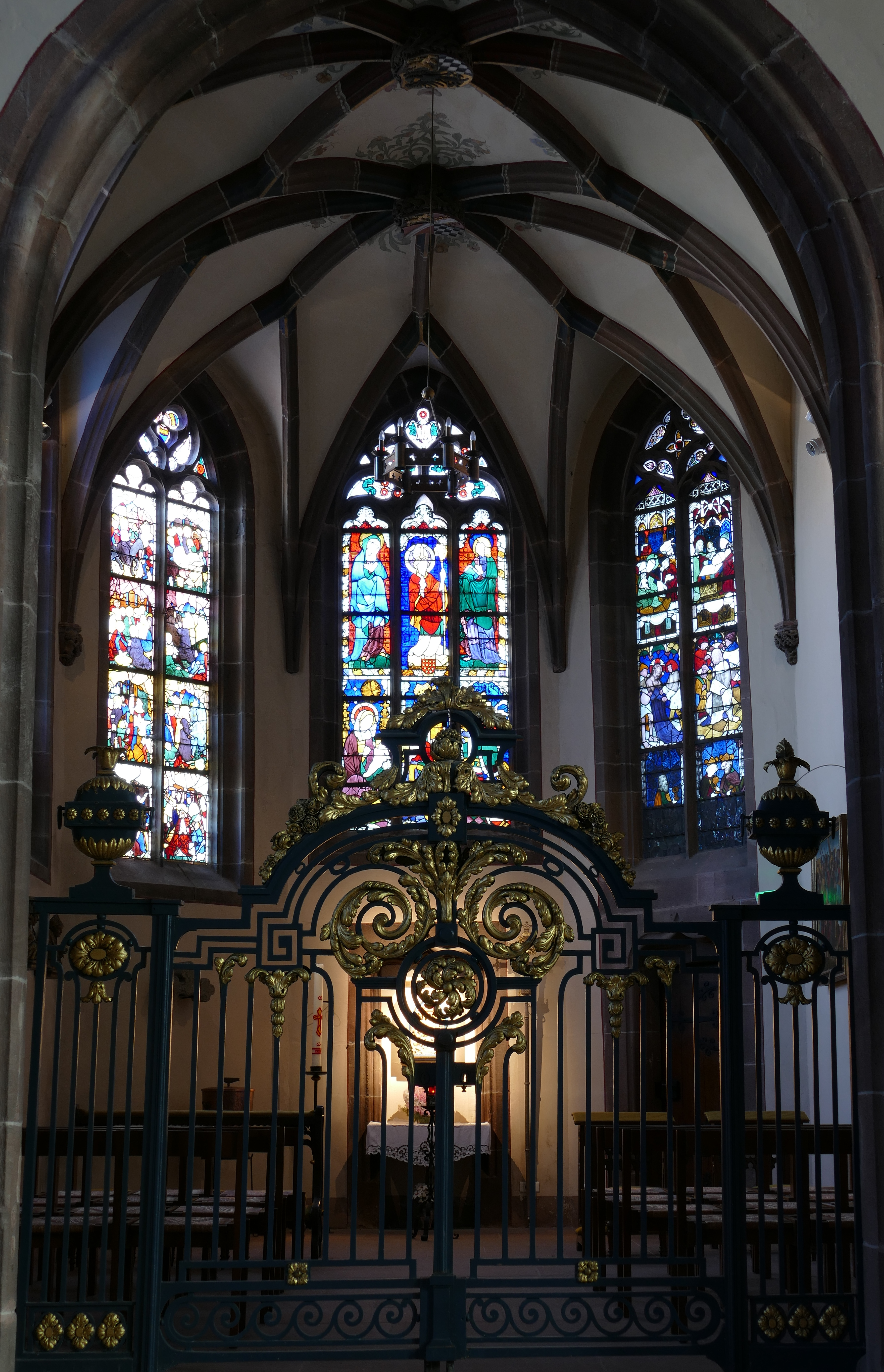 Alsace, Bas-Rhin, Saverne, Église Notre-Dame-de-la-Nativité (PA00084954, IA00055464). Clôture de la Chapelle de la Vierge (1778): This object is classé Monument Historique in the base Palissy, database of the French furniture patrimony of the French ministry of culture, under the references PM67000289 and IM67004272.